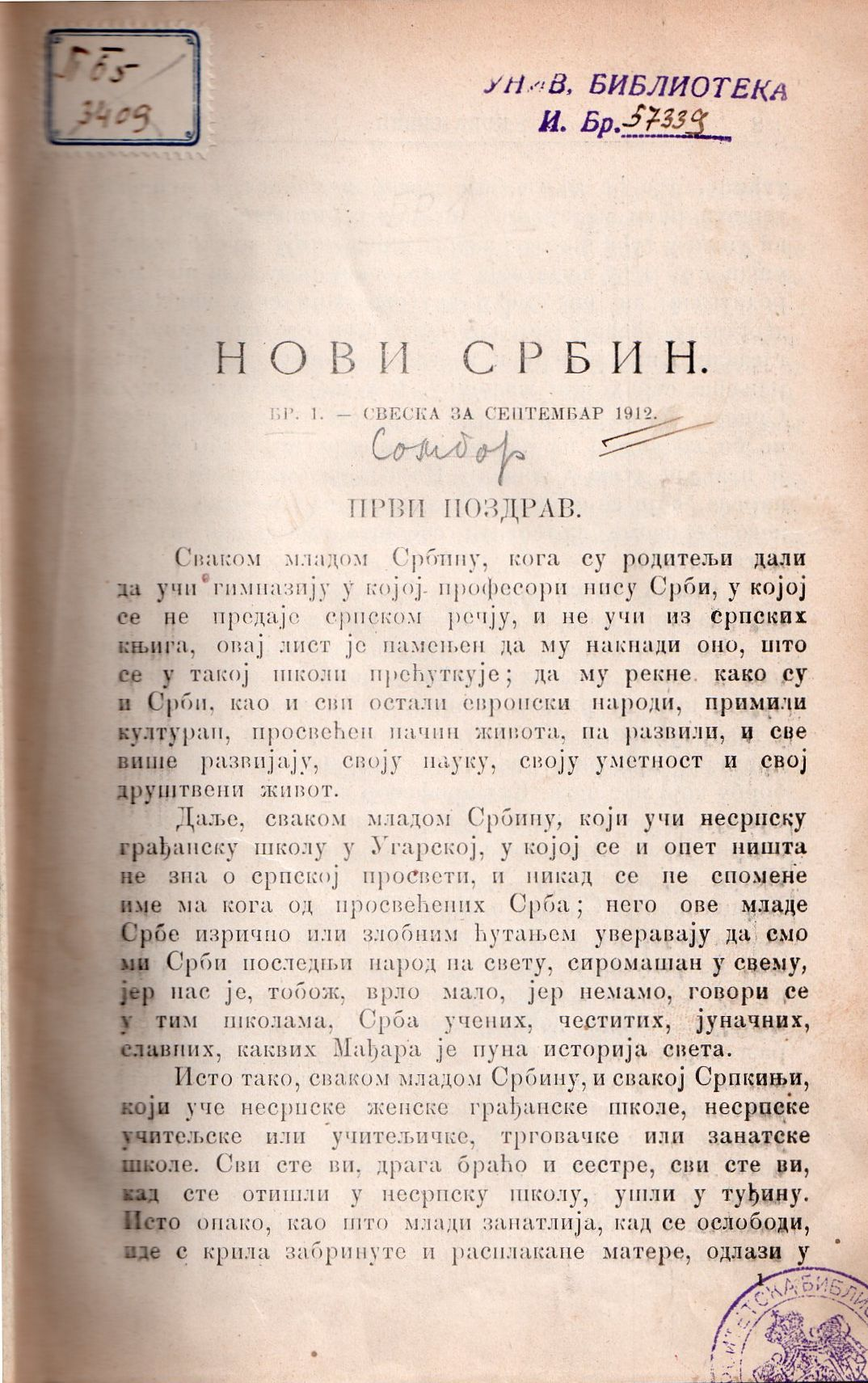 First page of journal Novi Srbin, 1912, Sombor, Serbia